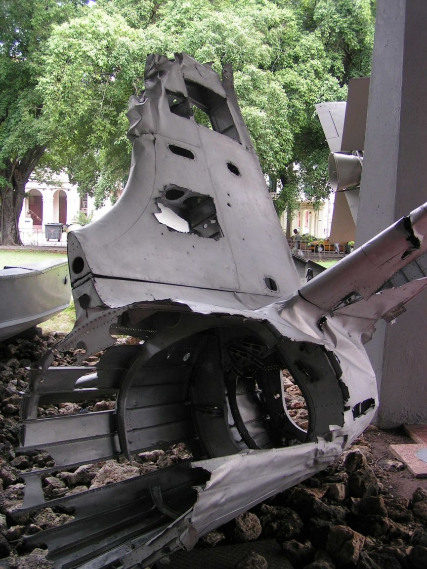 Parts of a shot-down Douglas B-26 at the Museum of the Revolution, Havana, Cuba.